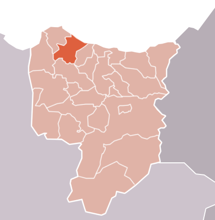 Boudinar